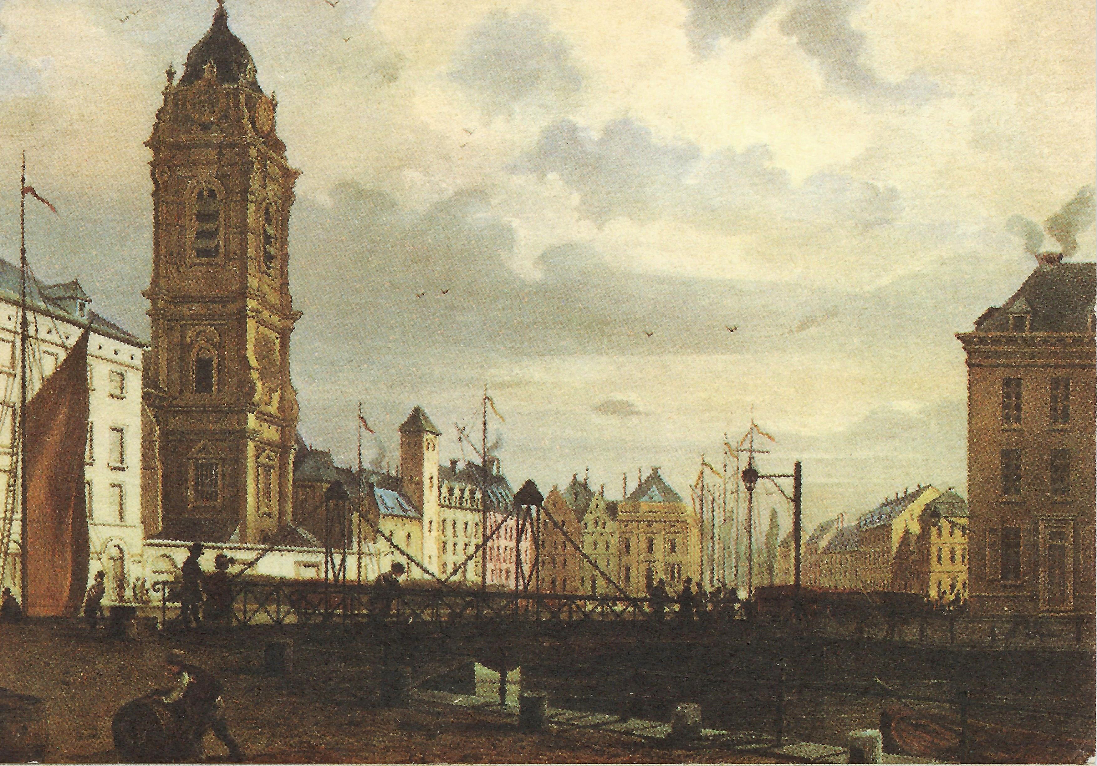 Postcard depicting a 19th century painting of the St-Katerina Basin.